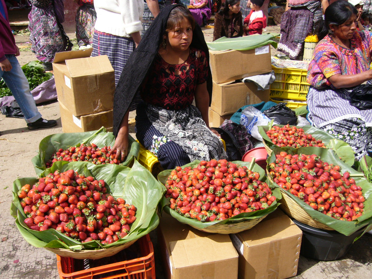 Strawberries vendor at the San Juan Sacatepequez market, Guatemala